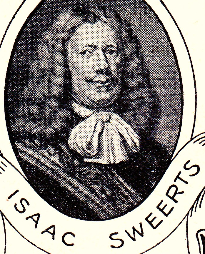 Issac Sweerts (1622-1673)